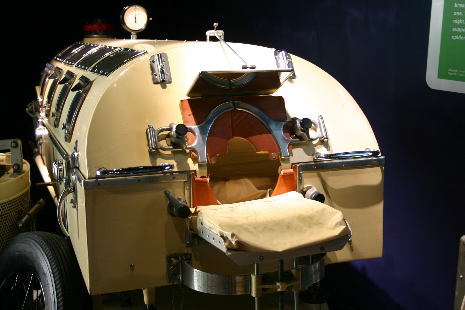 This mobile iron lung was built in the 1950s by the Alvis Motor Company can be seen in The Science Museum in London (Exhibition Road). Iron lungs, especially during polio epidemics in the first half on 20th century, were built in car factories and some featured car parts.